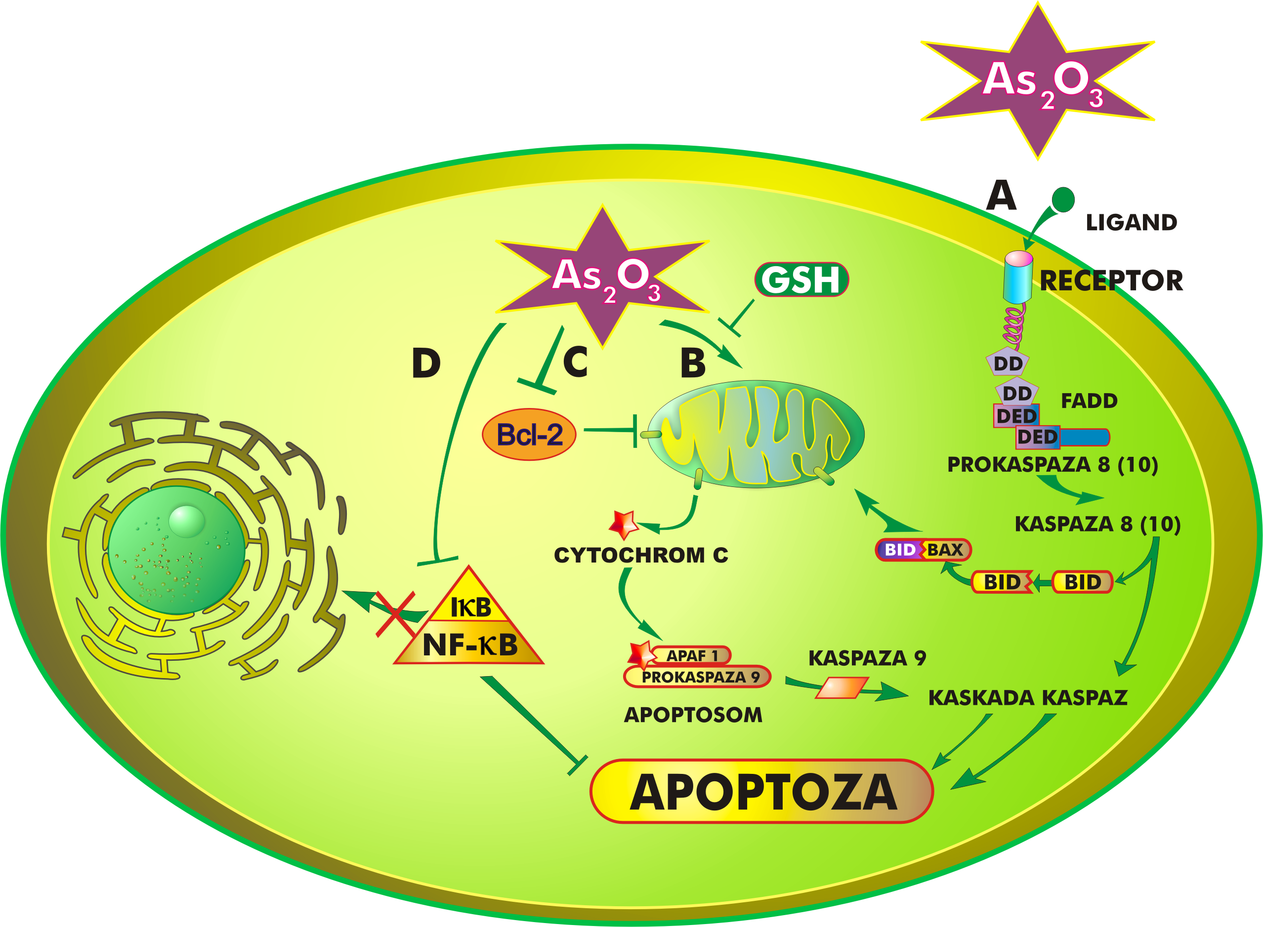 Mechanism of apoptosis induced by arsenic trioxide